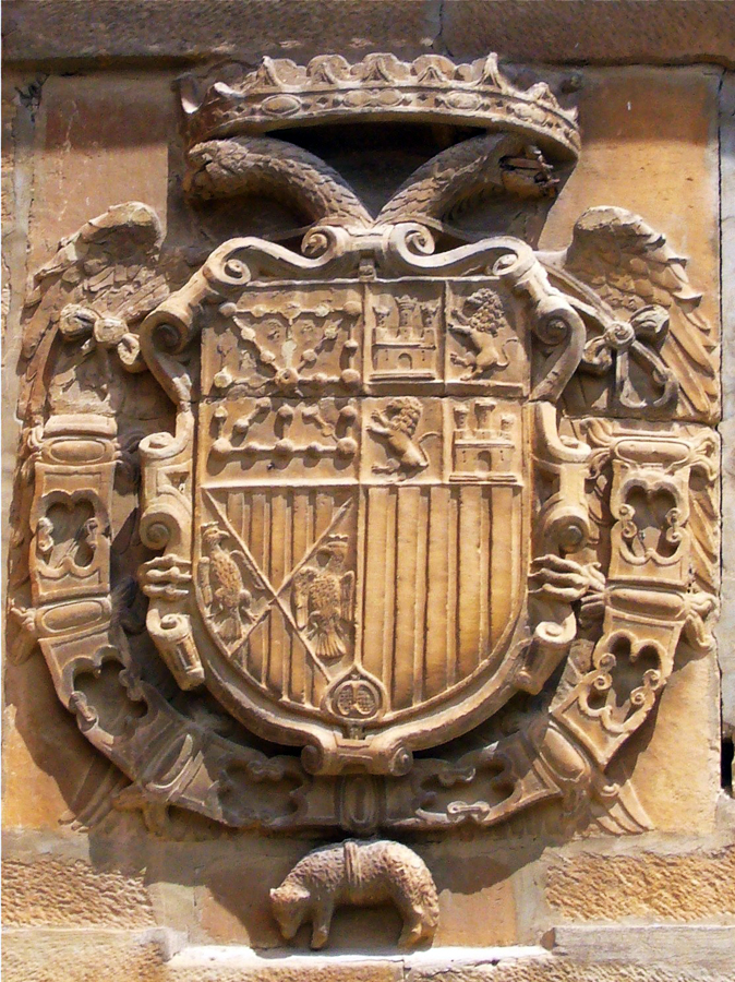 Coat of Arms of Charles I of Spain in Viana, Navarre